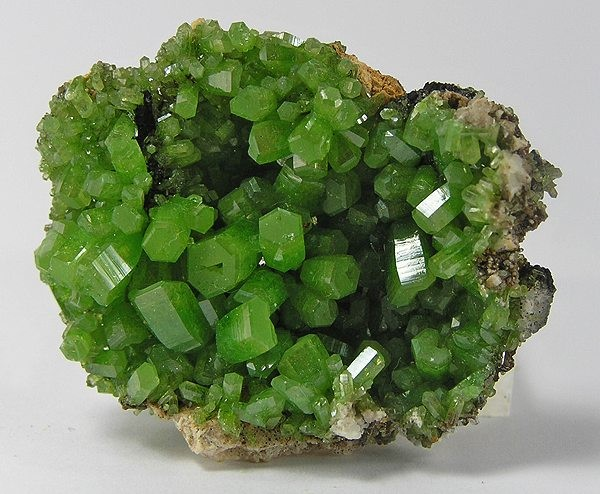 Pyromorphite Locality: Daoping Mine (Tangping Mine), Gongcheng City, Gongcheng County, Guilin Prefecture, Guangxi Zhuang Autonomous Region, China (Locality at ) Size: 3.9 x 2.9 x 1.6 cm. A super mini of the now-scarce pyromorphite from China. This is a shallow pocket filled with fine translucent crystals of wonderful color. Superb luster, too!